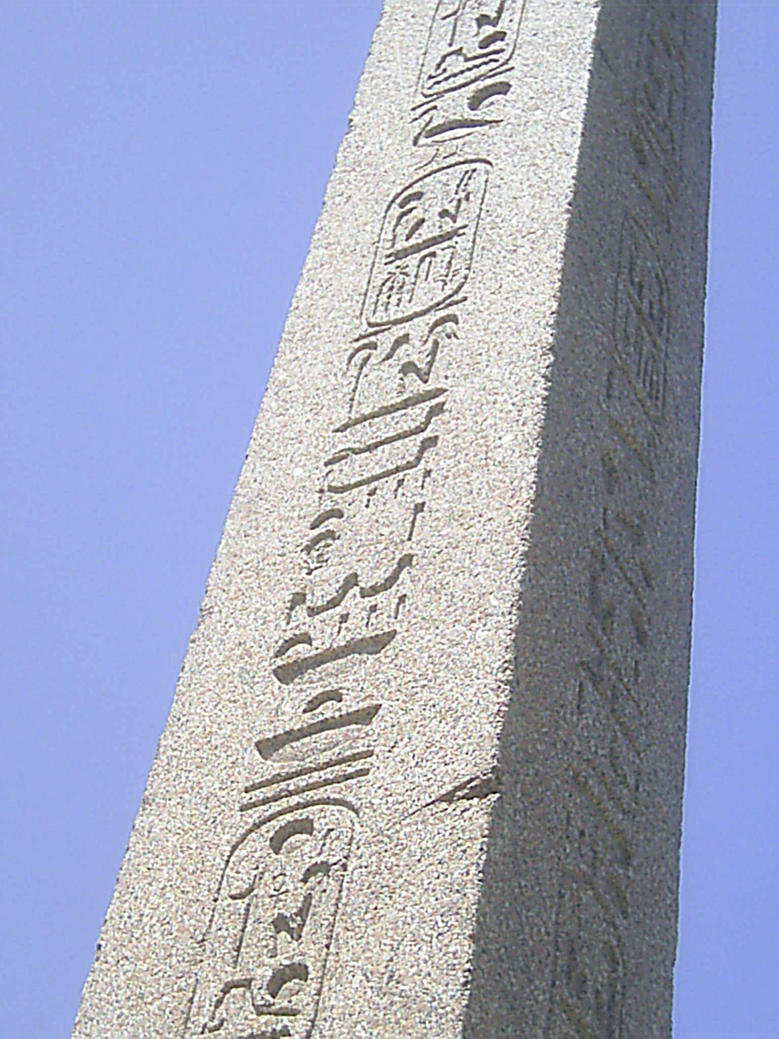 A close-up shot of the obelisk in the Boboli Garden (Florence, Italy).